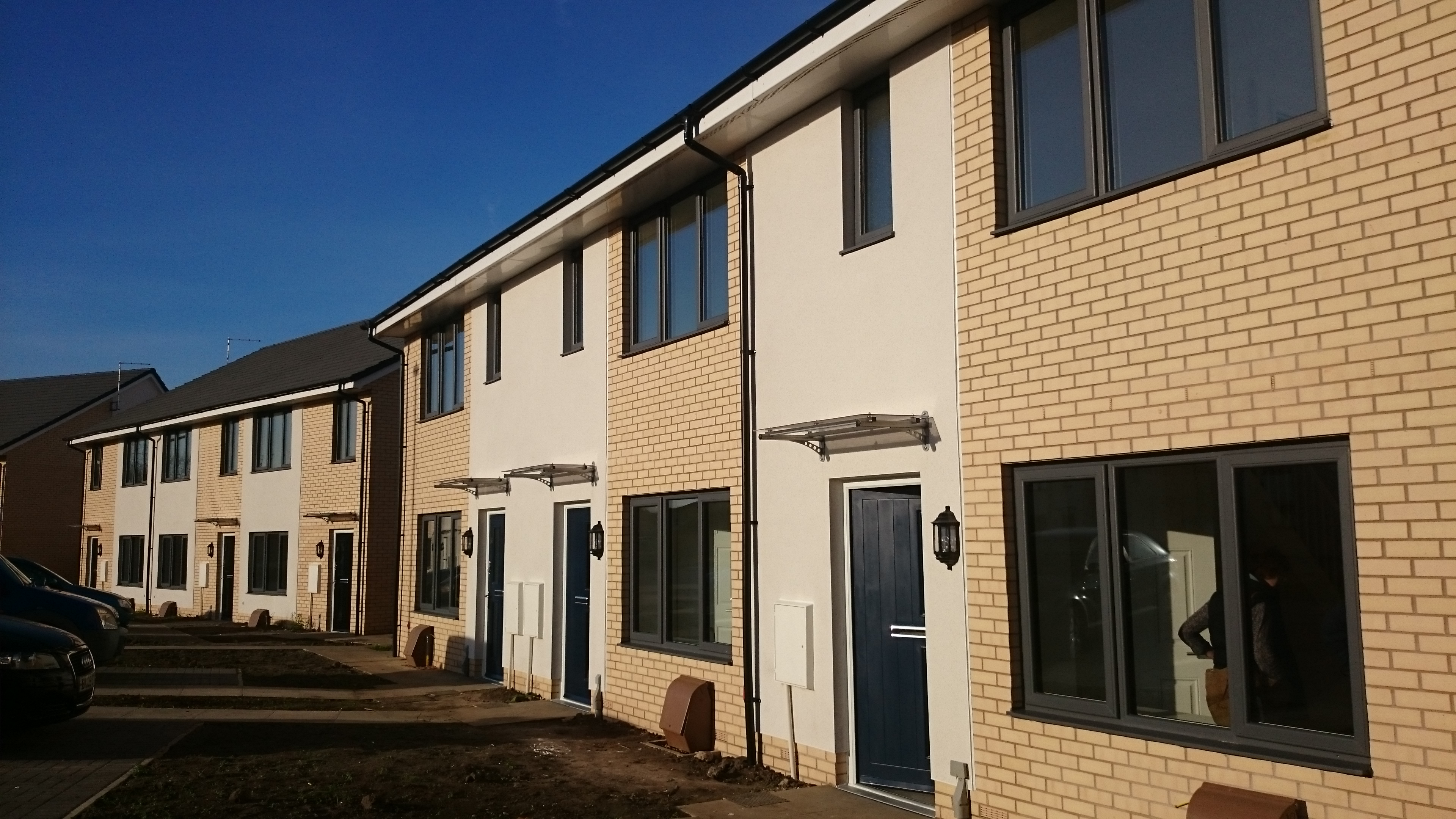 This is an image of Saffron Acres the largest community-led housing project in Europe.